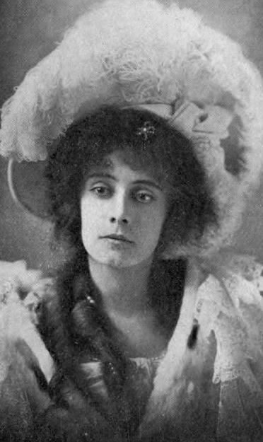 Blanche Crozier, a young white actress, from a 1901 publication. She is wearing a large bonnet, and a dress with similar ribbons and feather trim.